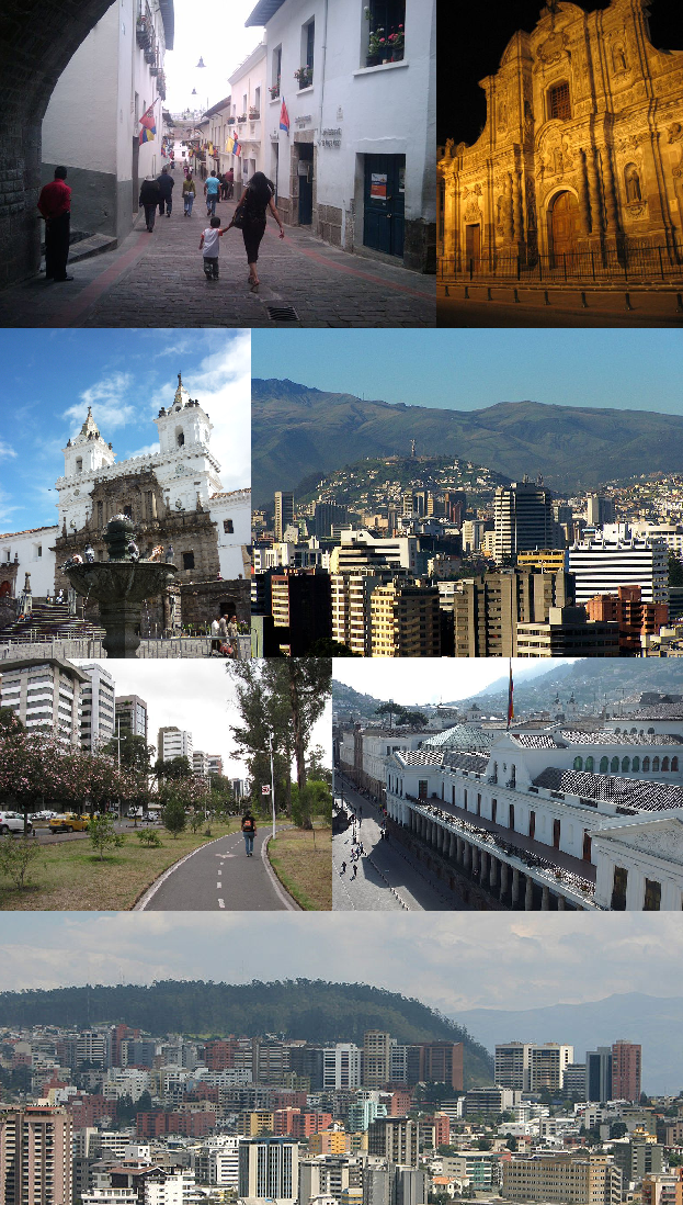 montage of various important landmarks of the City of Quito, Ecuador taken from files found in Wikimedia Commons.